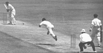 Gubby Allen bowling to Stan McCabe, 4-9 December 1936